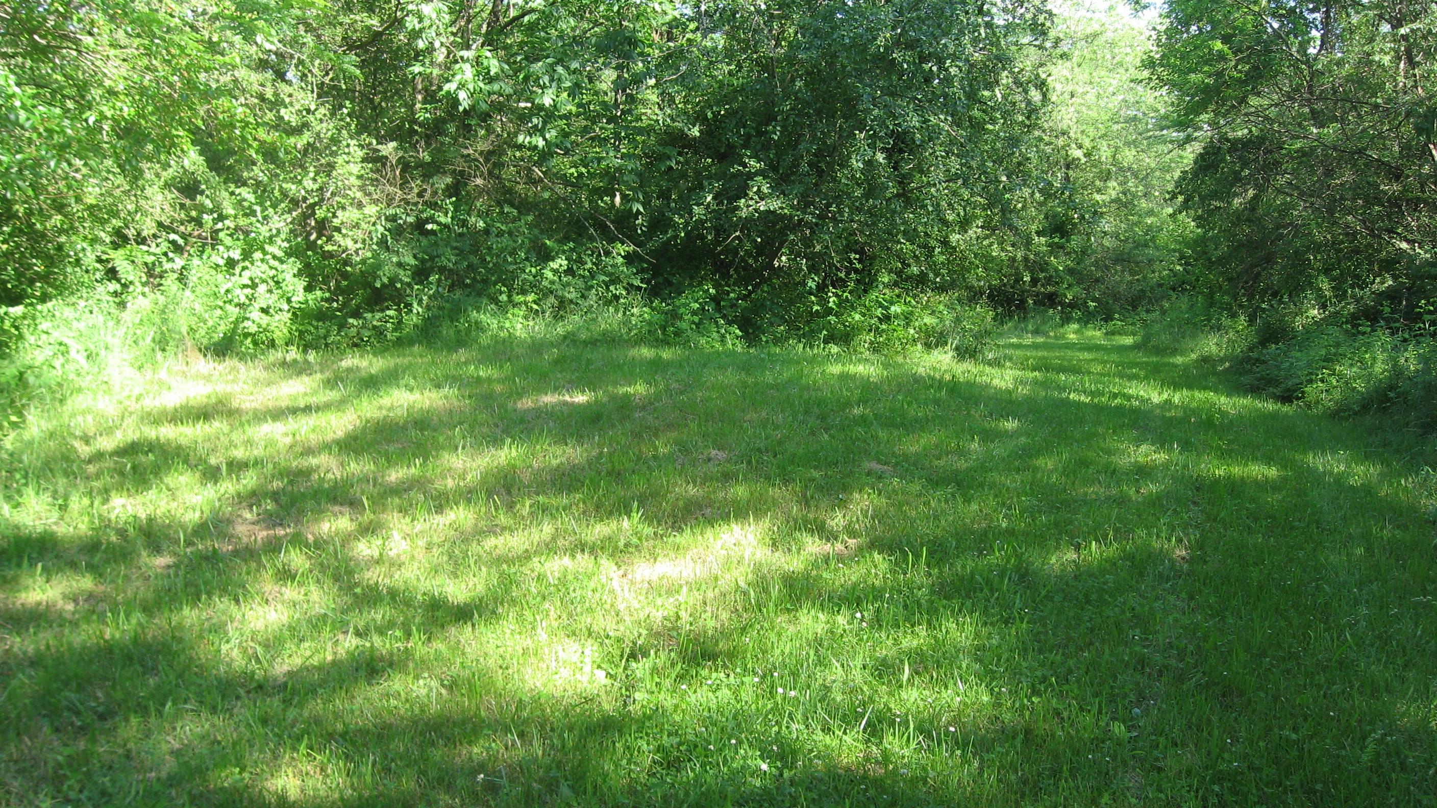 Comprehensive view of the Carl Potter Mound, located in a former pasture field east of State Route 56 southwest of Mechanicsburg in southeastern Union Township, Champaign County, Ohio, United States. Built by prehistoric Adena Native Americans, the mound is an archaeological site and is listed on the National Register of Historic Places. In the past, the mound was repeatedly plowed and has been reduced greatly in size as a result; it is a slightly raised area in the center of the photograph, and its far side is at the edge of the wooded area.